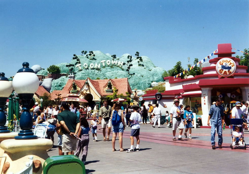 Toontown Disneyland 1995 Taken by Ellen Levy Finch (User:Elf)